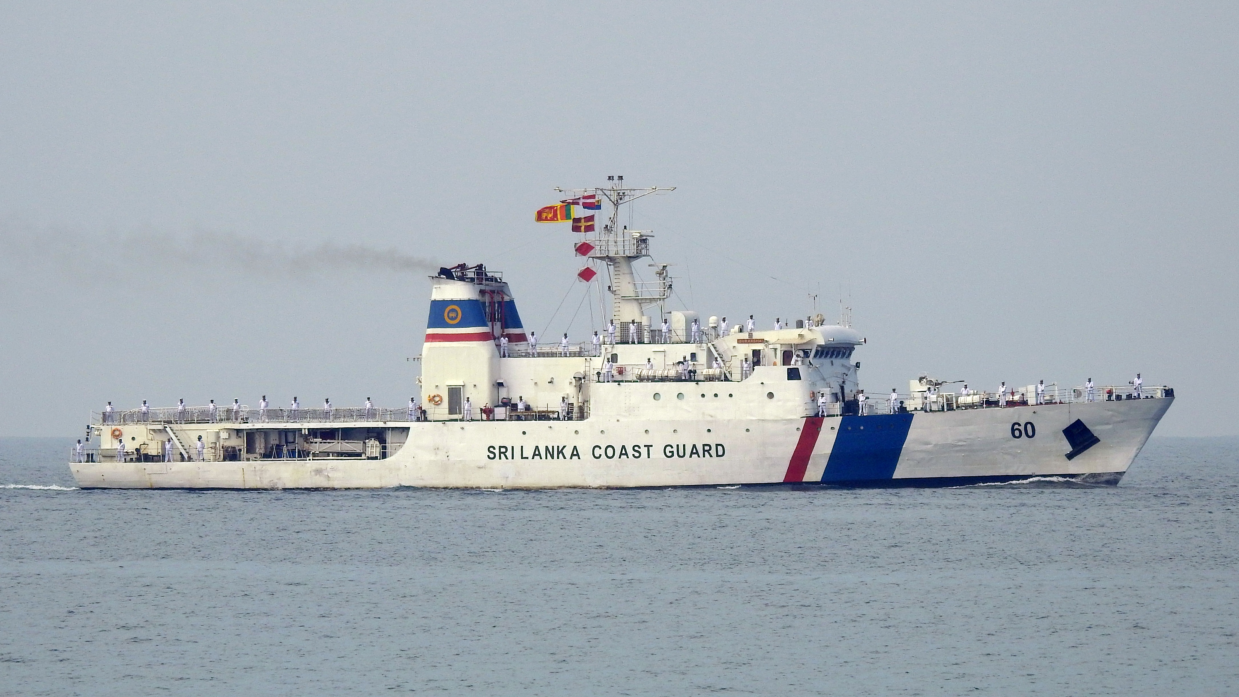 A 2-hour photowalk was conducted during the Independence Day of Sri Lanka (4 February 2019), covering the environment and events near the annual parade held at Galle Face Green. The project mostly covered the Navy and Coast Guard vessels, Air Force aircrafts, and civilian life during that morning.